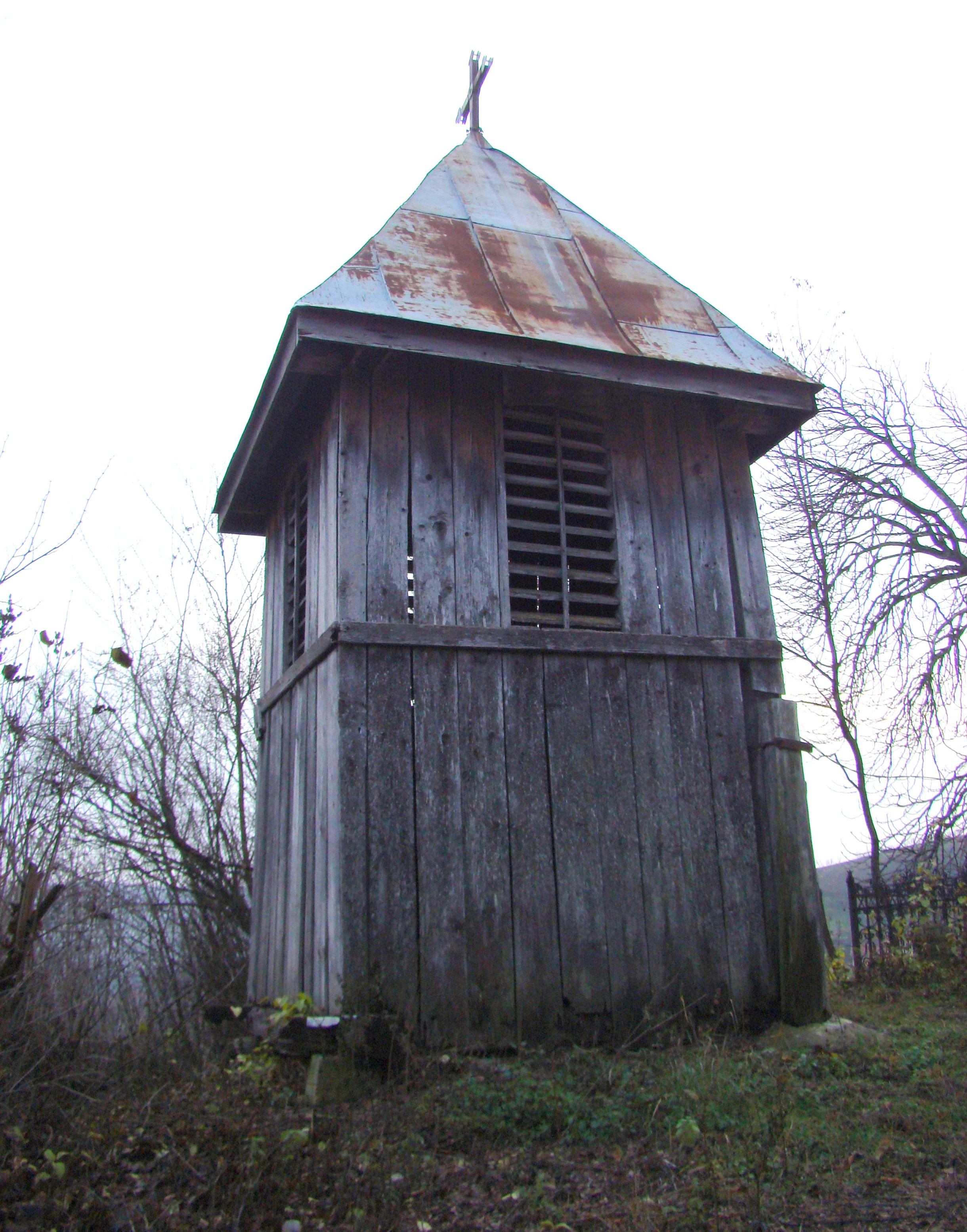 Wooden church in Bărăi, Cluj county, Romania